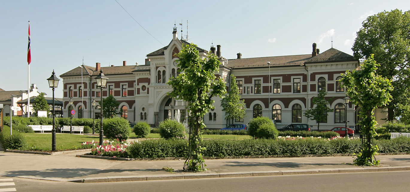 Hamar railway station with station park. Hamar, Norway. Built 1896. Architect: Paul Due.